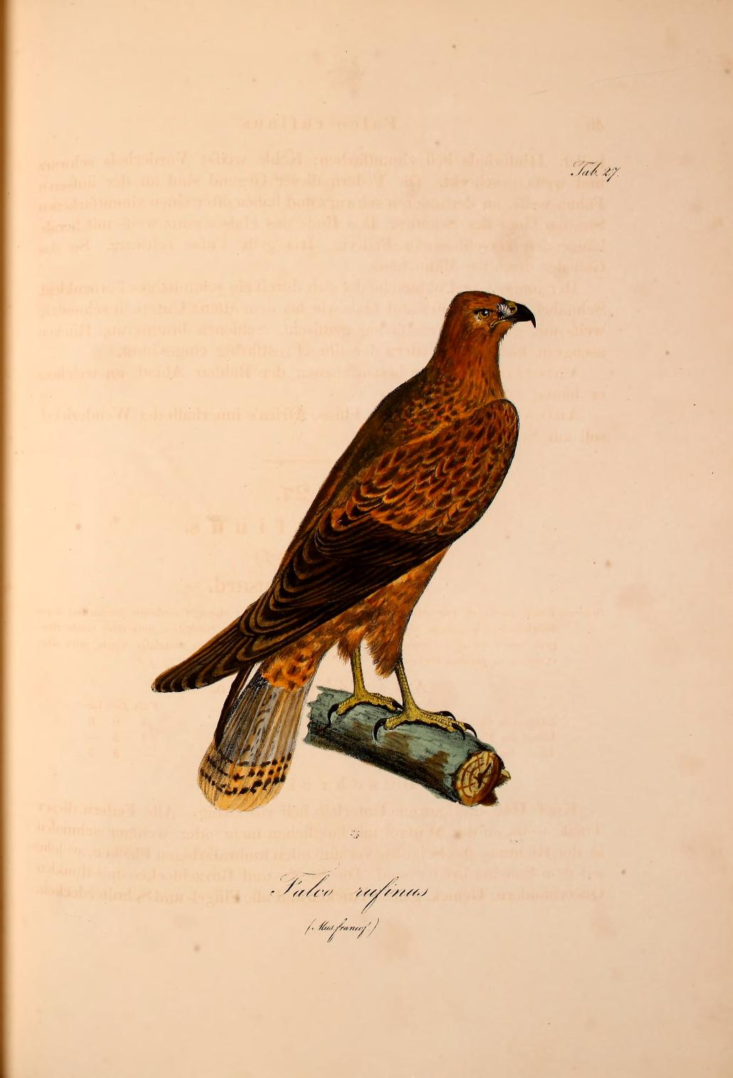 Falco rufinus = Buteo rufinus, Long-legged Buzzard. 1829 depiction, attached to first description.